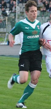 Vadym Sapay